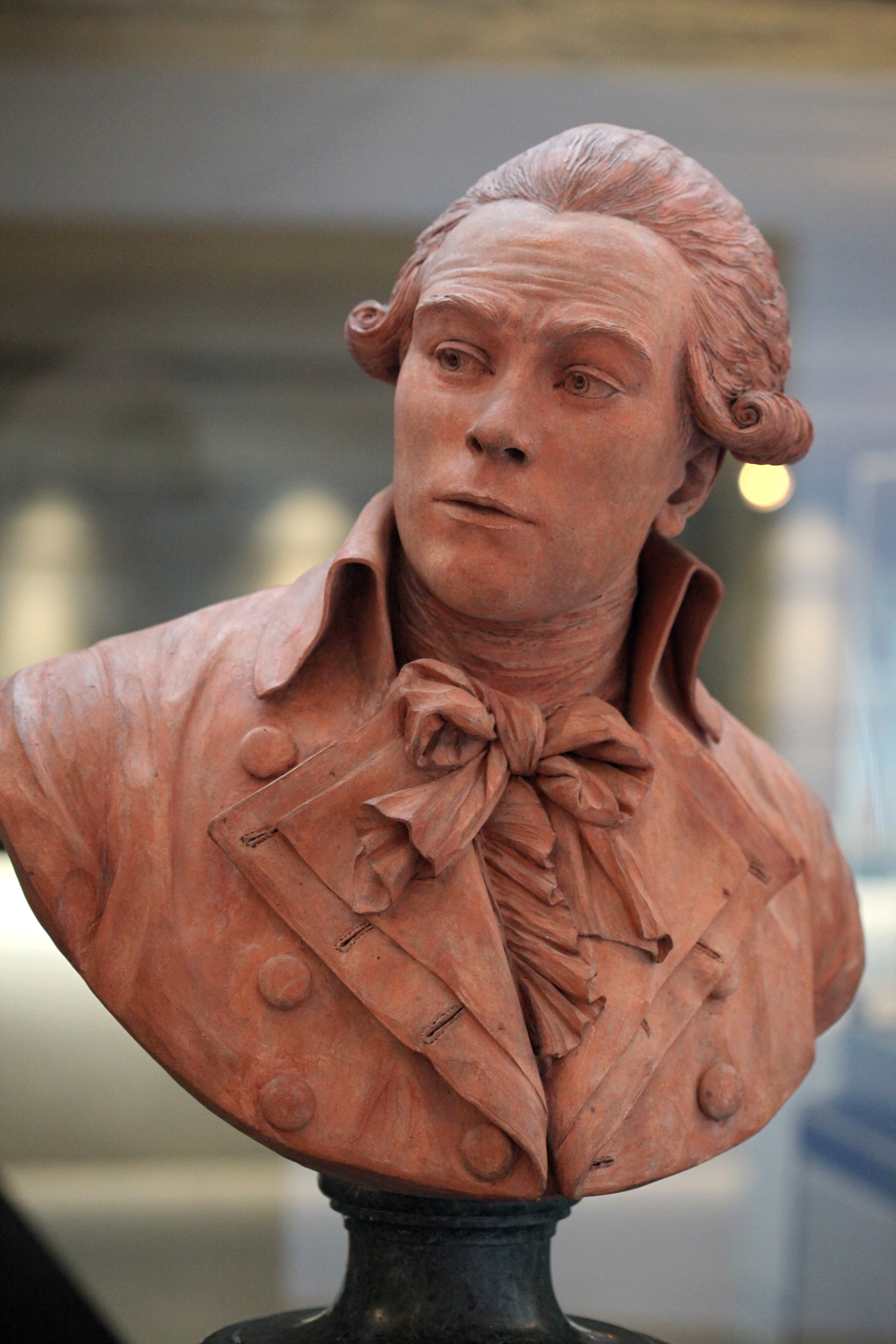 Maximilien Robespierre, bust by Claude-André Deseine. Terra cotta, 1791. Bought in 1986, accession number MRF 1986-243. Musée de la Révolution française Native nameMusée de la Révolution françaiseLocationVizilleCoordinates45° 04′ 31″ N, 5° 46′ 23″ E Established1983Website control : Q2389498 VIAF: 141488728 ISNI: 0000 0001 2324 3759 ULAN: 500312690 LCCN: n85154456 GND: 1211686-5 WorldCat